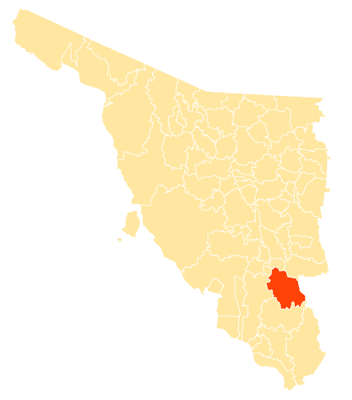 Municipality in Sonora, Mexico.